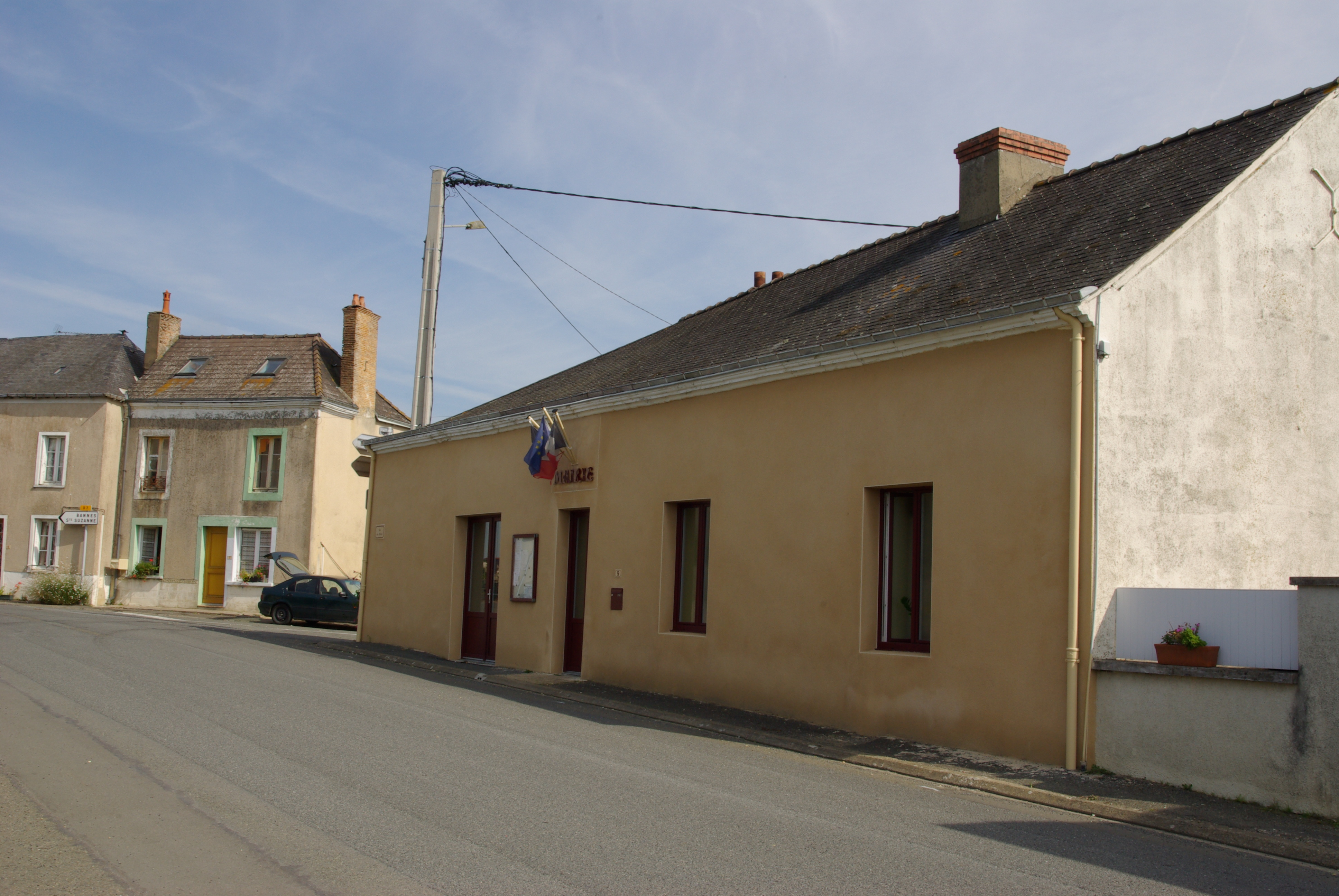 City Hall Epineux-le-Seguin